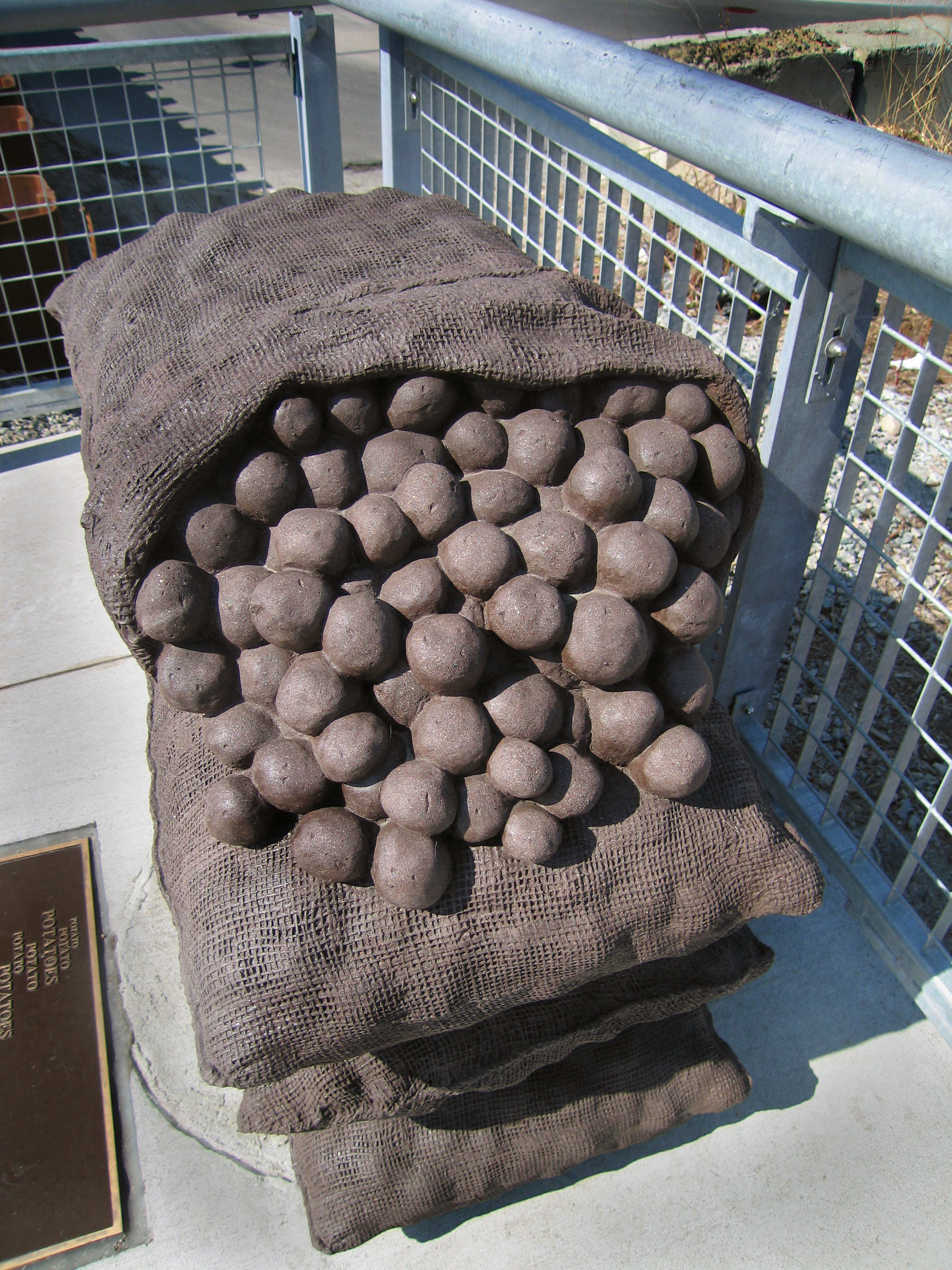 Four 50 lb burlap potato sacks sculpted of cast stone, recall the massive potato sheds that burned in this location in 1962.